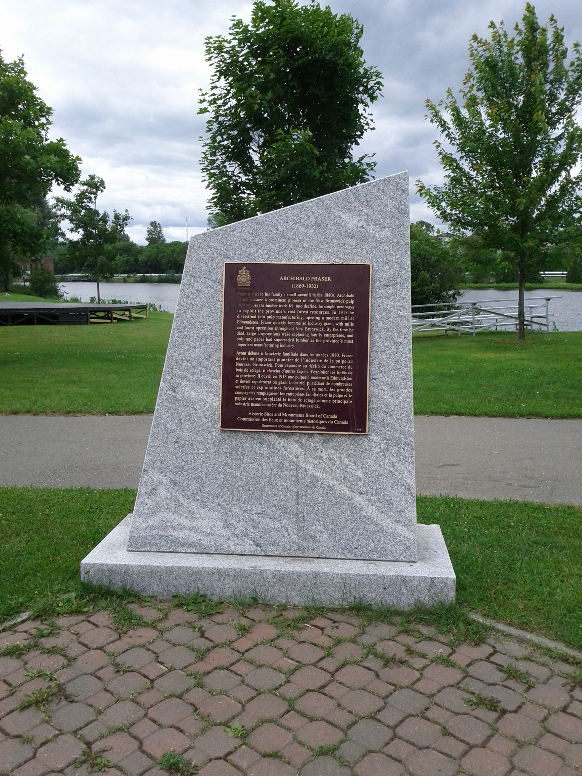 Monument in memory of Archibald Fraser (1869-1932), pioneer of the pulp and paper industry in in Northwestern New Brunswick.